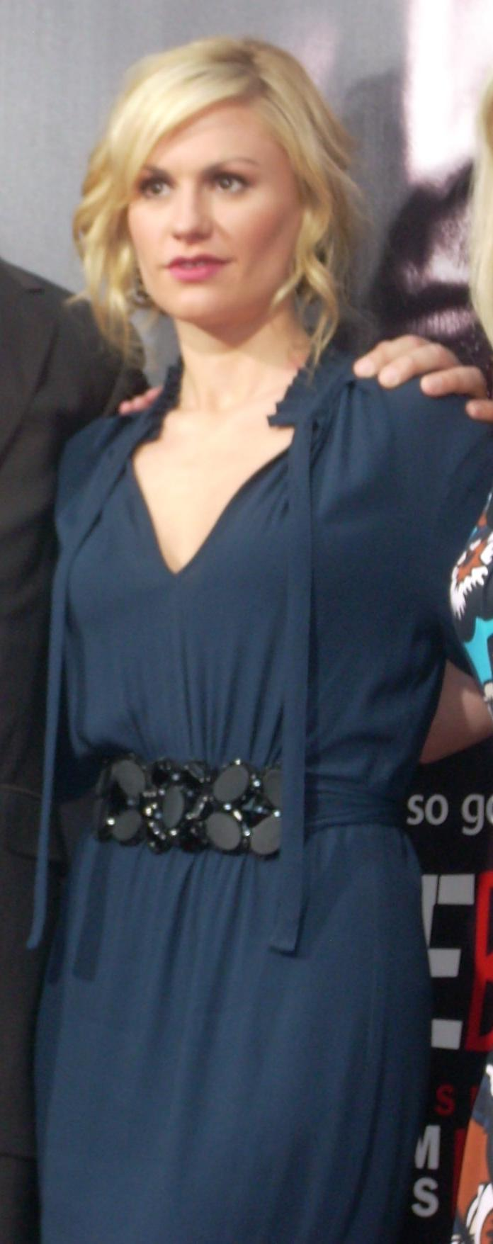 Anna Paquin - "True Blood" Season Two Premiere Party - Paramount Theater, Paramount Studios, Hollywood, California.